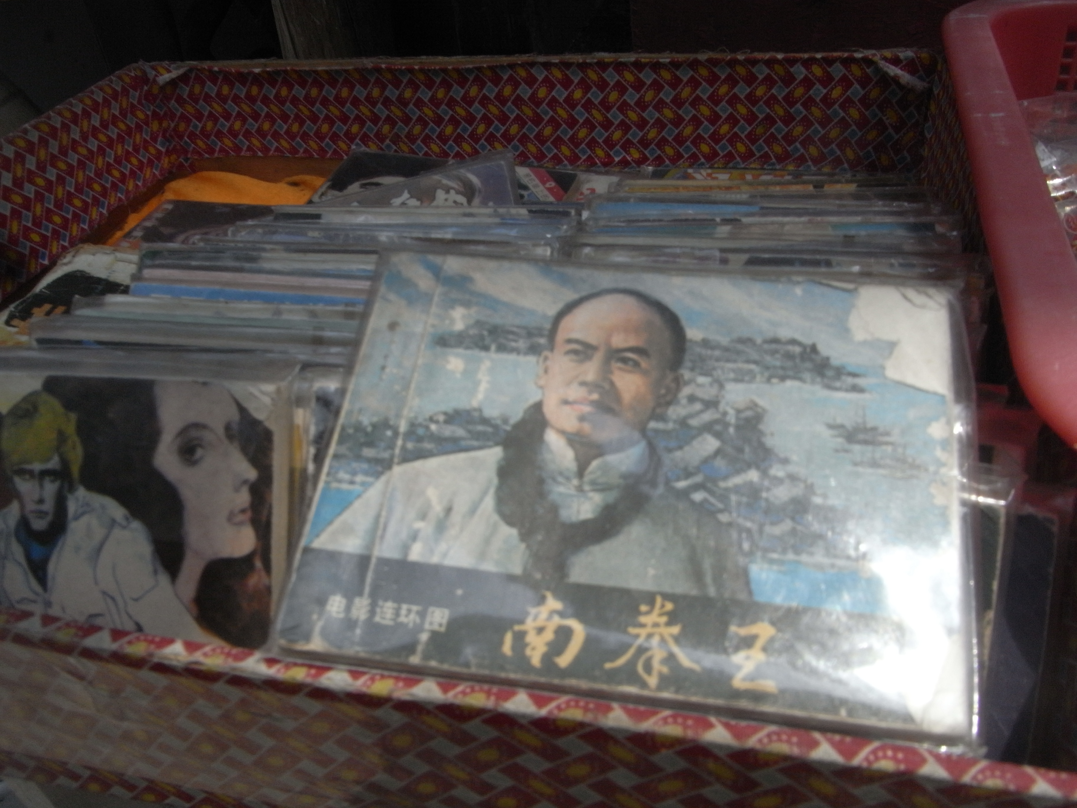 上環樂古道